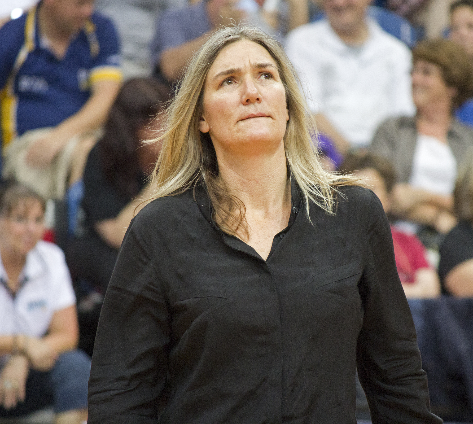 Carrie Graf } at the Canberra Capitals vs Logan Thunder held at AIS Arena at the Australian Institute of Sport.